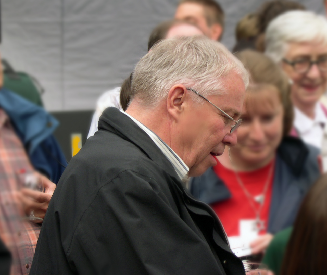 Christoph Blocher (born 11 October 1940, Schaffhausen, Switzerland) is a Swiss politician, industrialist, and former member of the Swiss Federal Council heading the Federal Department of Justice and Police (2004-2007).